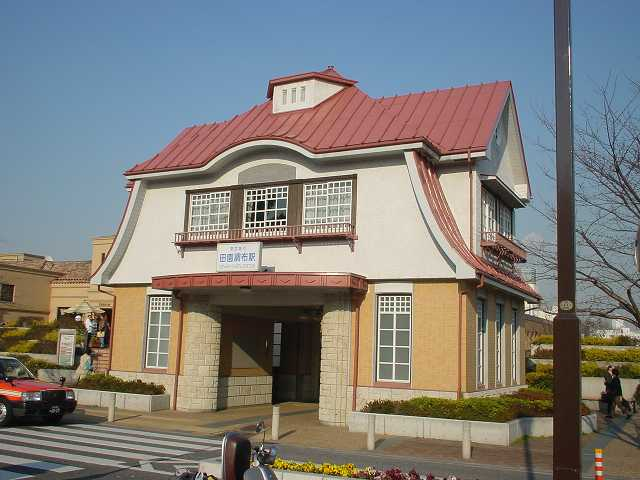 Den-en-chōfu Station in Ota, Tokyo, Japan.